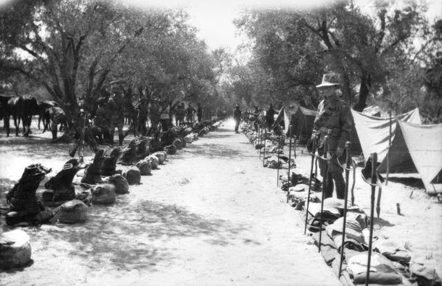 10th Light Horse Regiment camp at Ludd, Palestine, September 1918. Shown are the regiment's newly issued swords. Reference: Bou, Jean (2010), Australia's Palestine Campaign, p. 111